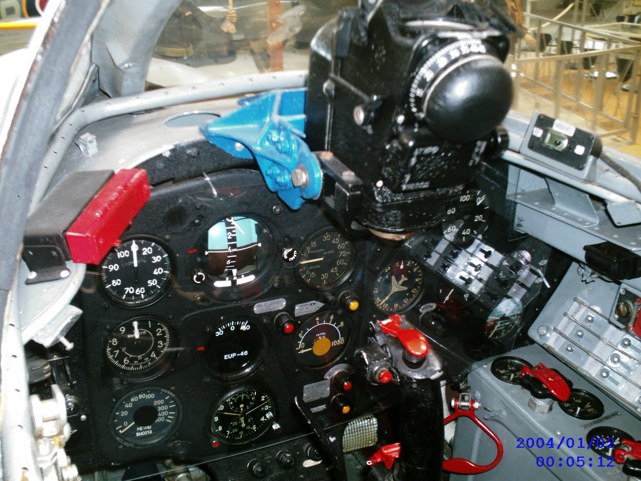 MiG-15 Cockpit